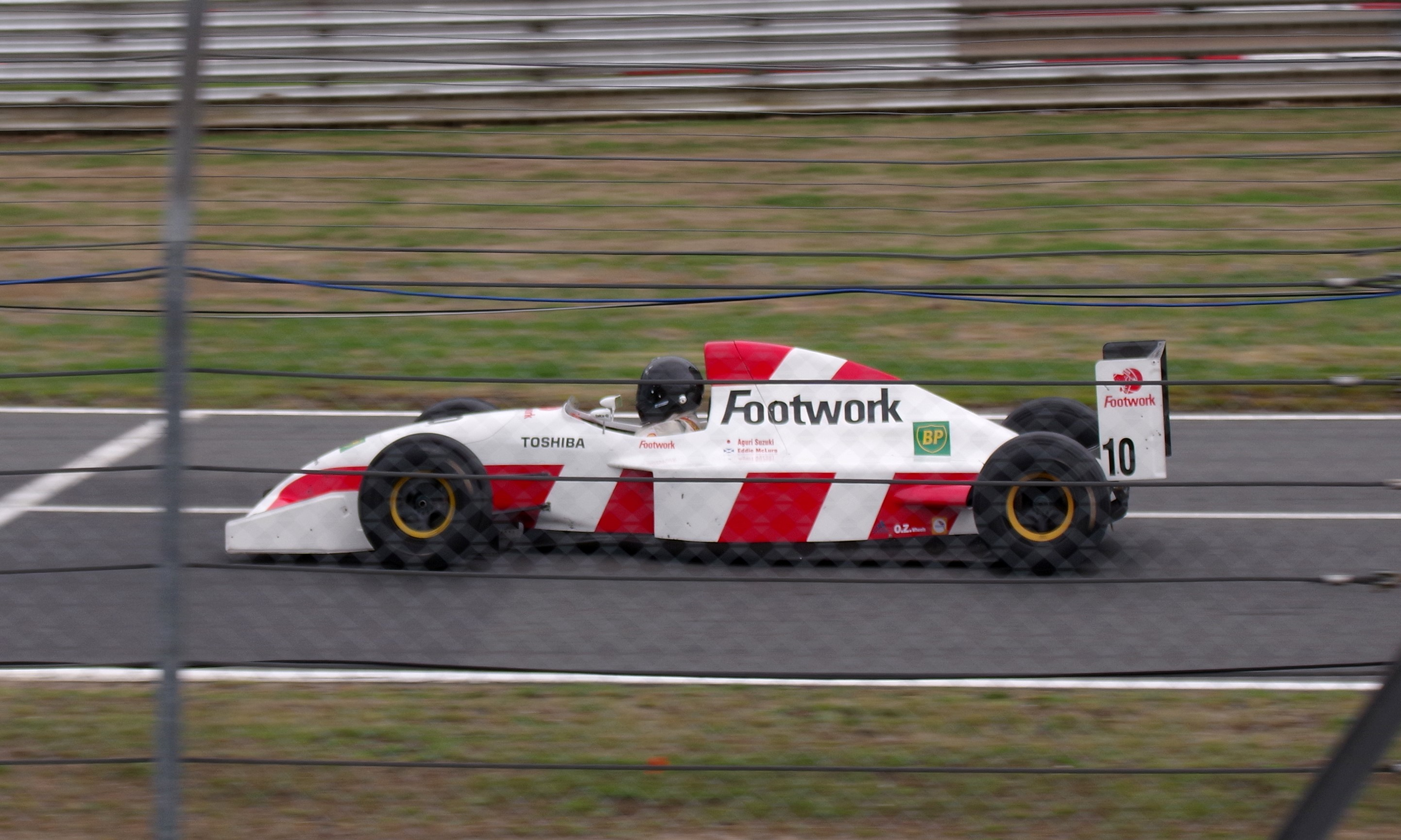 Footwork FA13 in Brands Hatch 2018, during a DTM race.